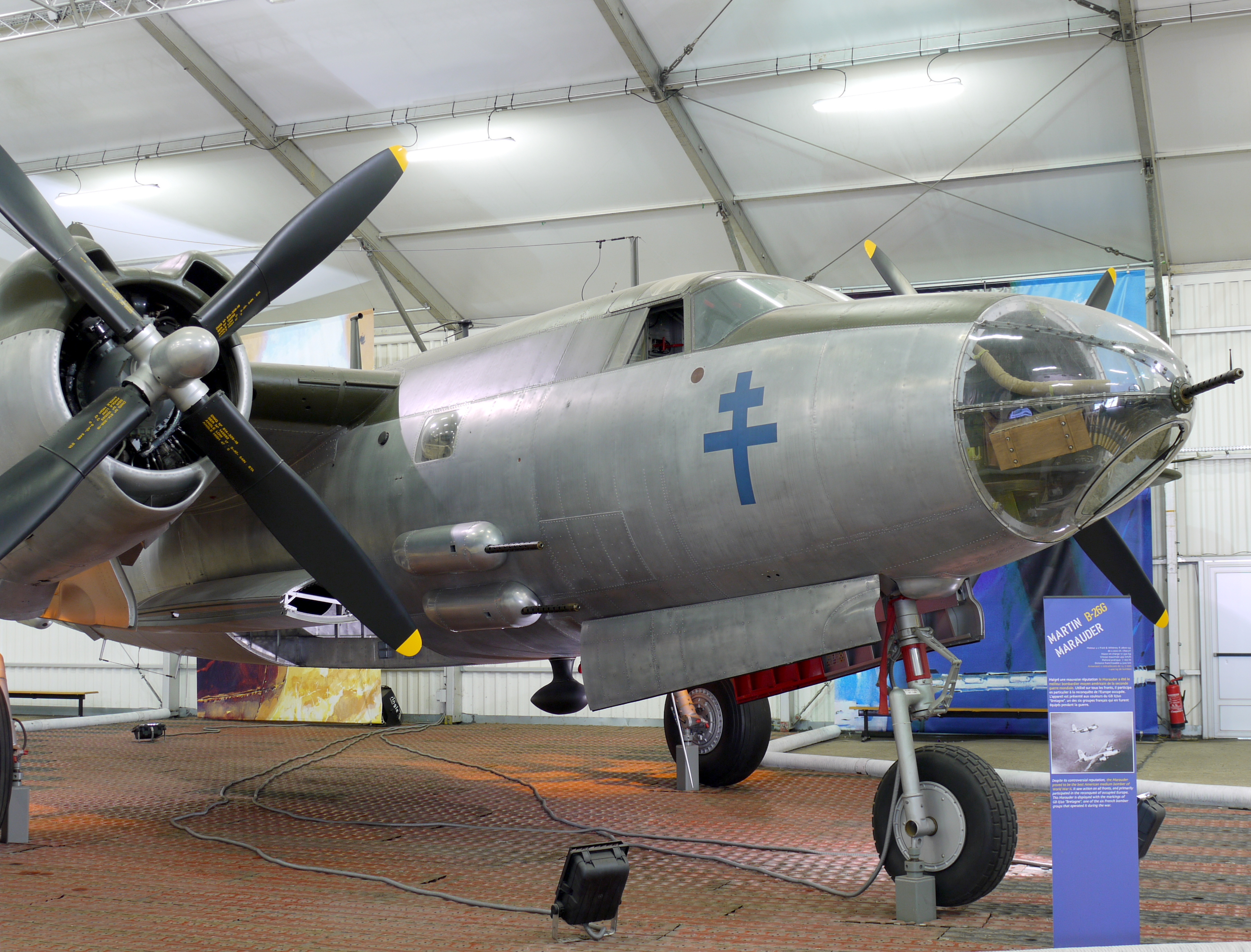 Martin B-26 Marauder, Museum of Air and Space Paris, Le Bourget (France)